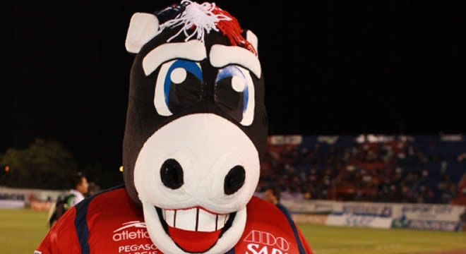 fotografia tomana en un partido de futbol del atlante